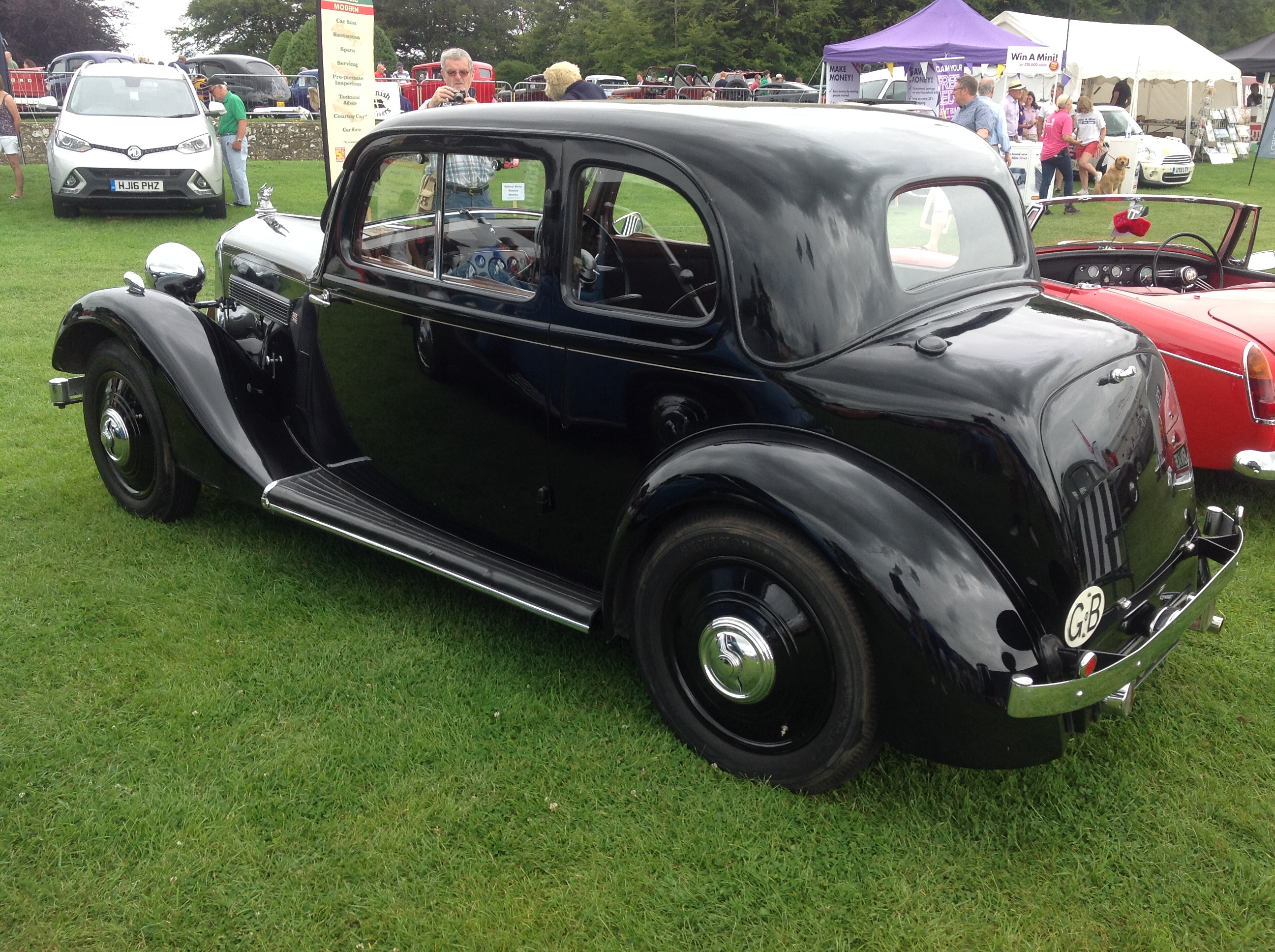 1939 Rover 10 sports coupé(DVLA) first reg 1 June 1938, 1389 cc Classics at the Castle, Sherborne, Dorset